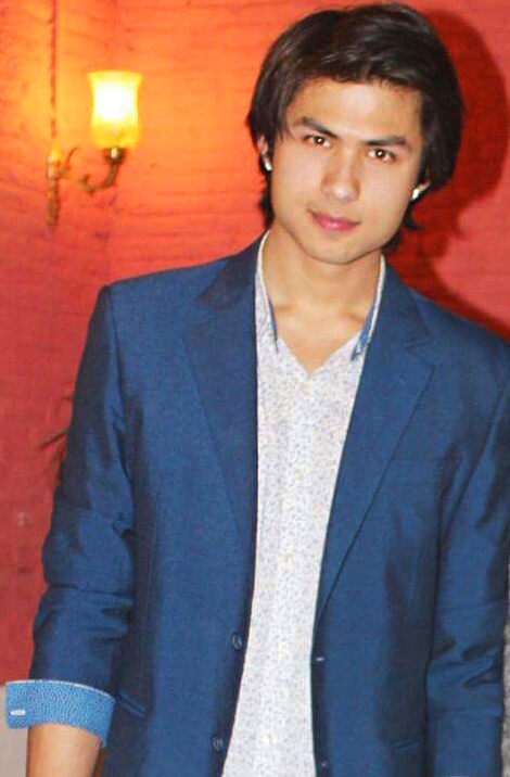 Anmol K.C. at success party of Dreams (2016 film).